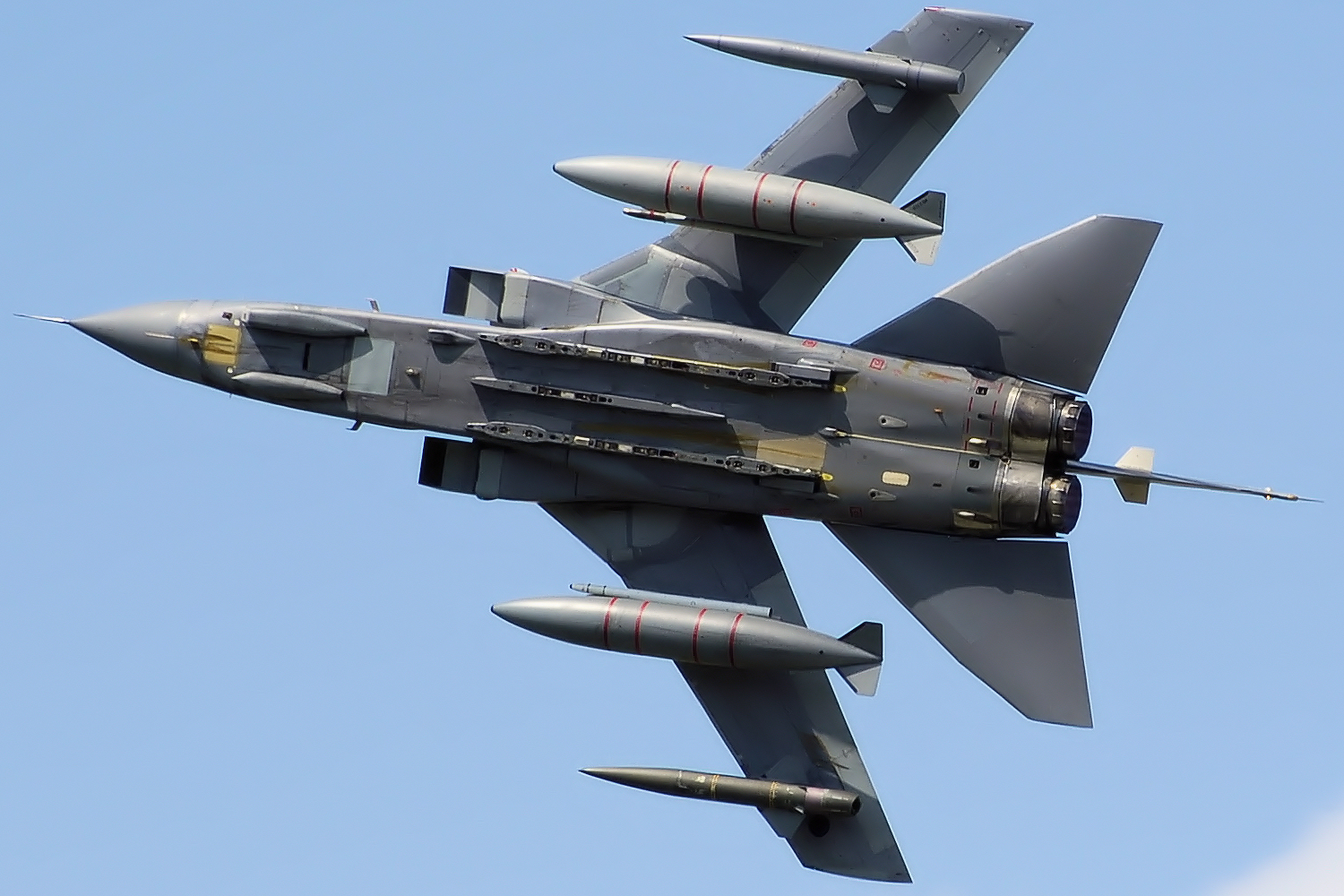 Panavia Tornado GR4 (ZA597, fin code 063)) with wings swept, at Kemble Air Day 2008, Kemble Airport, Gloucestershire, England.